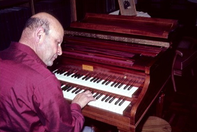 Adler performing on his 1947 Pleyel harpsichord